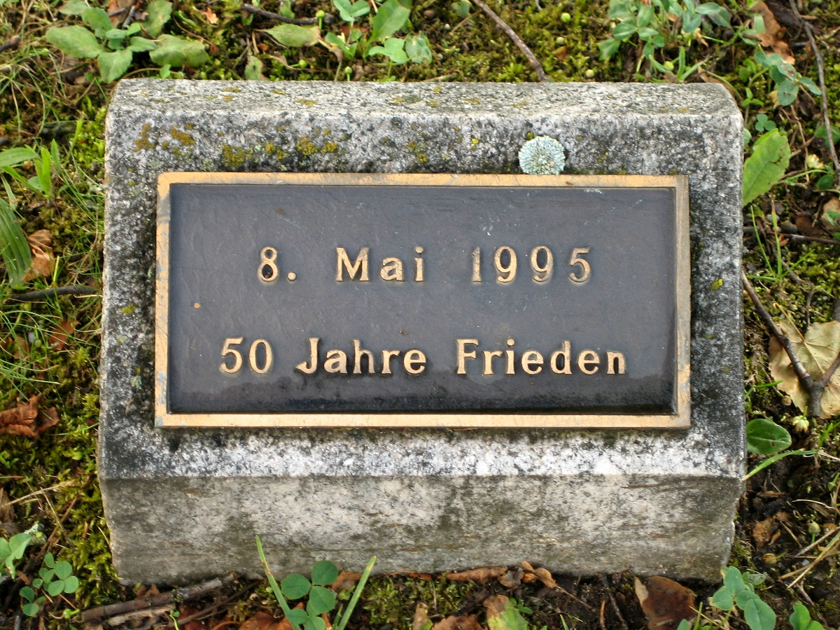 Peace memorial in Bad Waldsee, Germany.